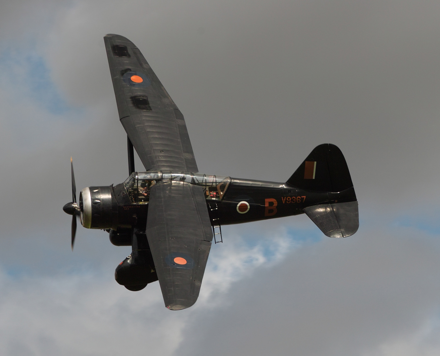 Westland Lysander serial number V9367 at Shuttleworth Military Pageant Airshow, 5 August 2012